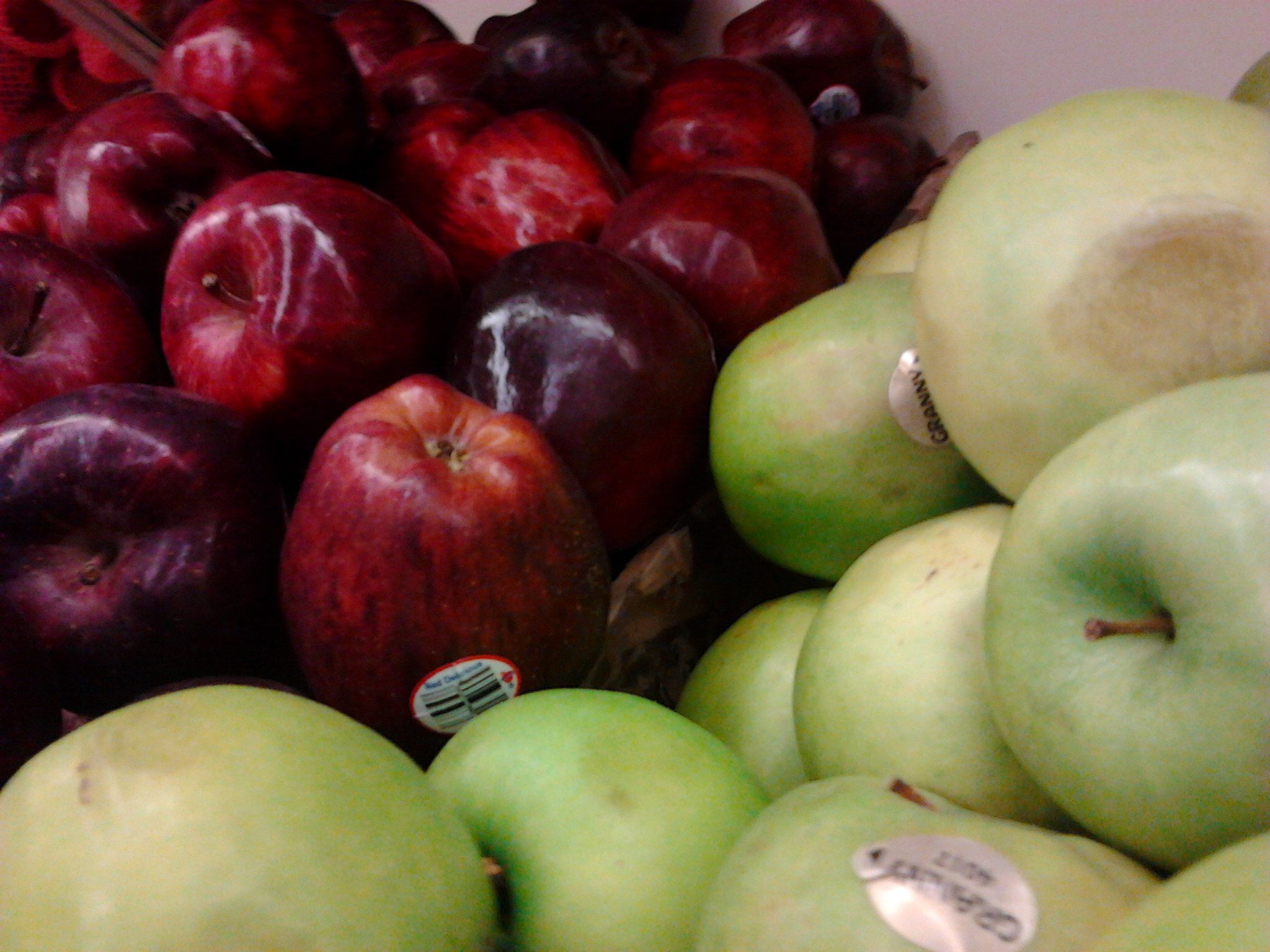 Photoed using Samsung Wave 525.